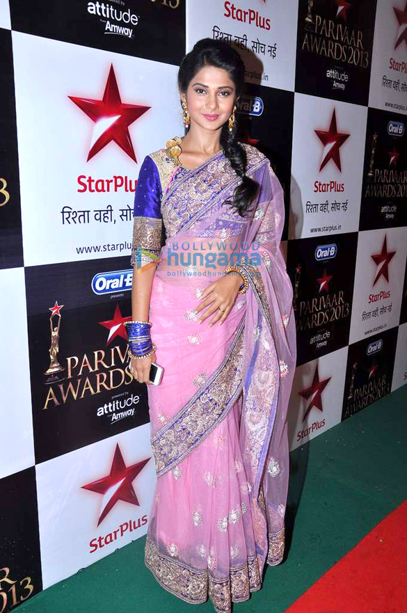 Winget at the '11th Star Parivaar Awards 2013'